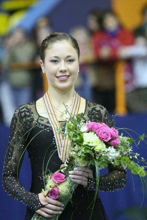 Laura Lepistö. 2008 European Championships.